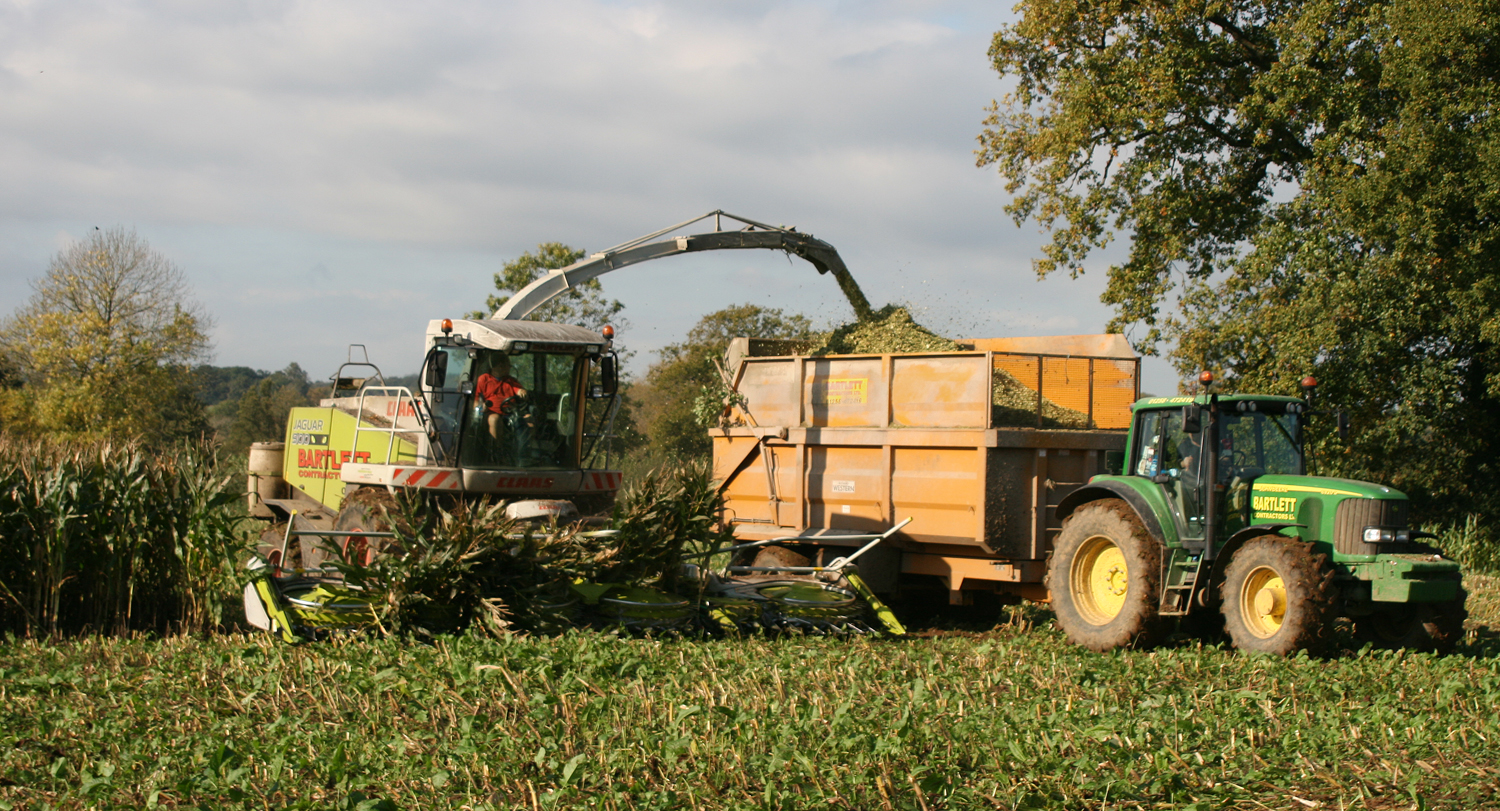 Maize cutting with a Claas Jaguar 900 and a John Deere tractor with silage trailer, Child Okeford, Dorset, England, UK.